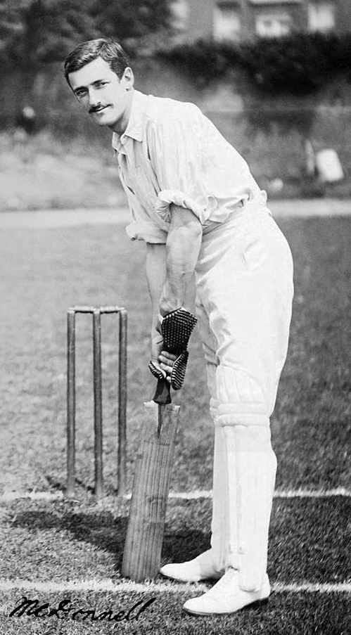 Hampshire cricketer Harold Clark McDonnell, circa 1912.